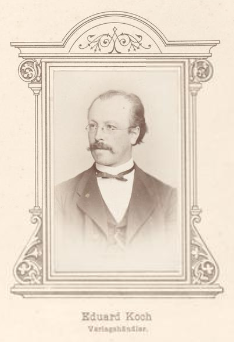 Plate 14 Photograph album of German and Austrian scientists. Stuttgart. Entomologischer Club (Entomological Club): August Courtin; Dr. Robert Kammerer; Dr. Gustav Jaeger; Carl Faber; G. Steudel; Hans Simon; Jos. Trinker (Joseph Trinker); Dr. W. Steudel (Wilhelm Steudel, 1829-1903), Dr. Jul. Hoffmann; Eduard Koch.